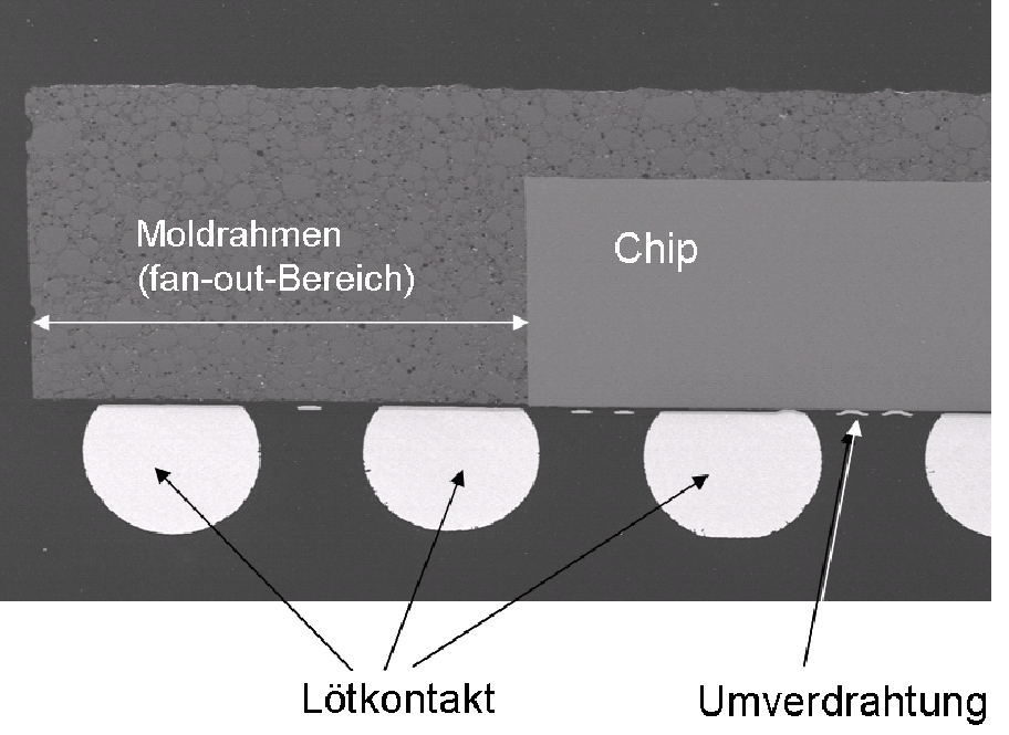 Cross section of eWLB package including one part of the package